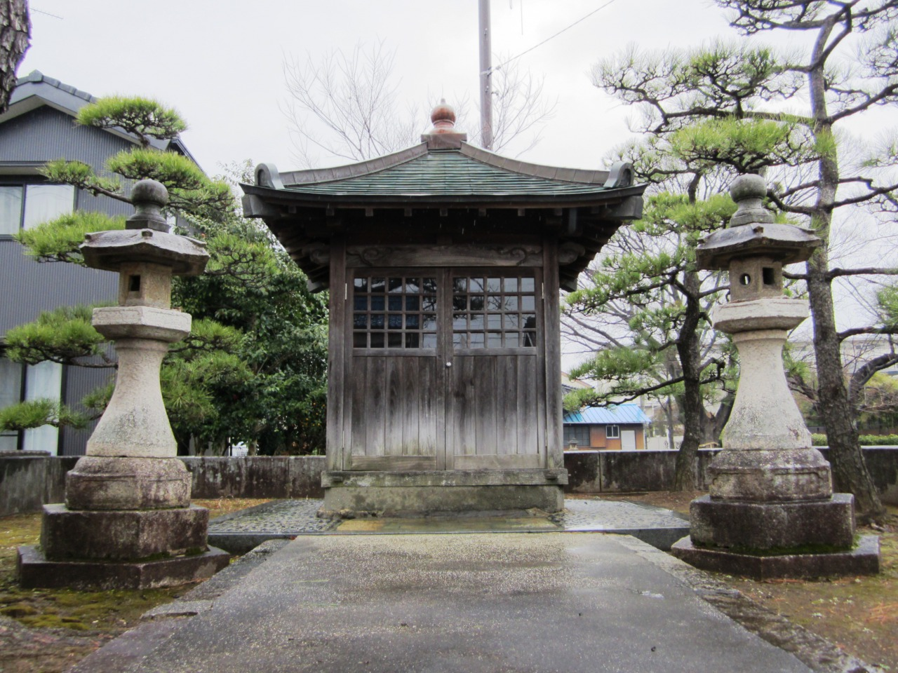 The mausoleum of Makino Narisada in Toyokawa, Aichi.